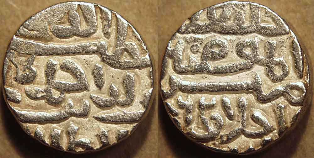 Silver tanka of Qutb al-Din Ahmad Shah II (1451-1458) of Gujarat, dated AH 862 (= 1457-58 CE)